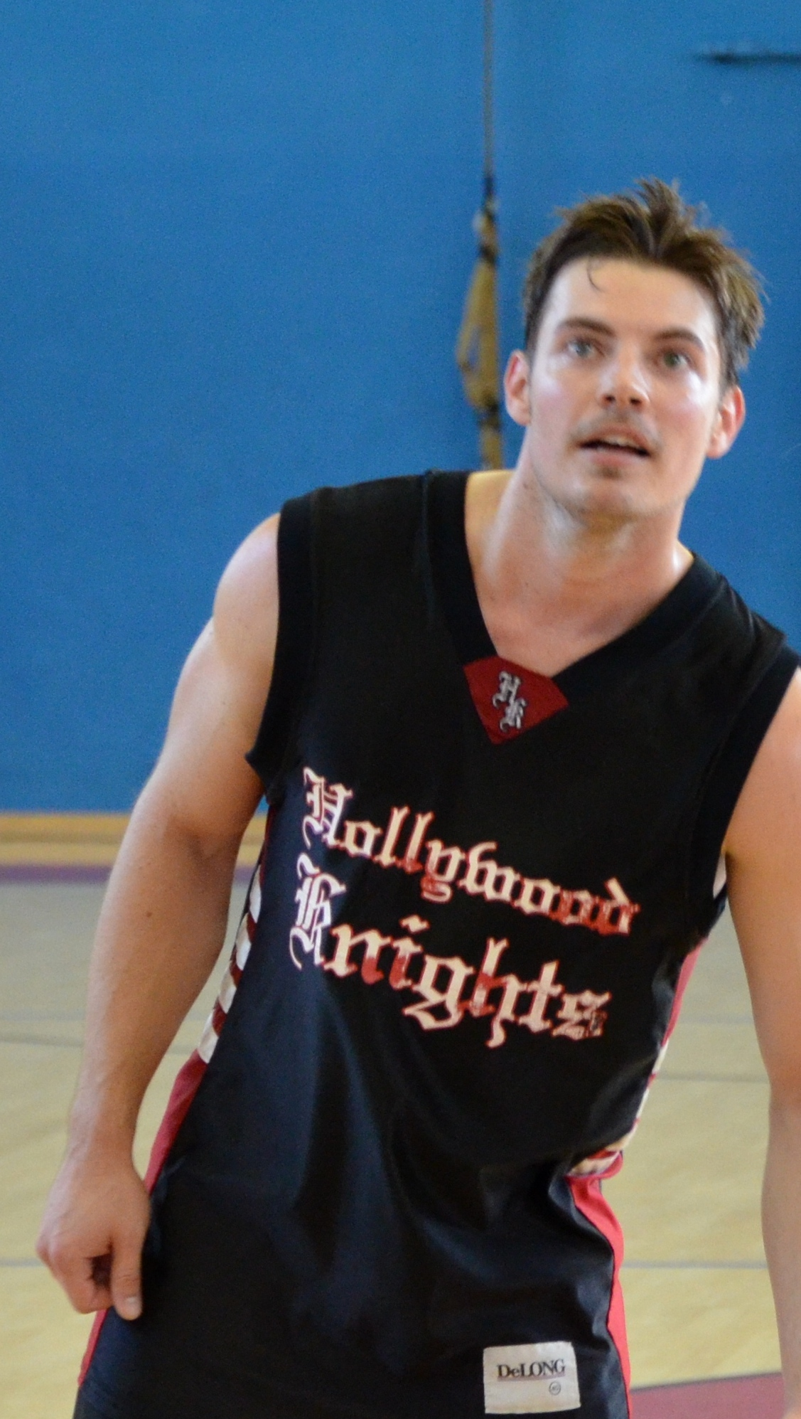 A celebrity Basketball team consisting of actor Josh Henderson and another stars